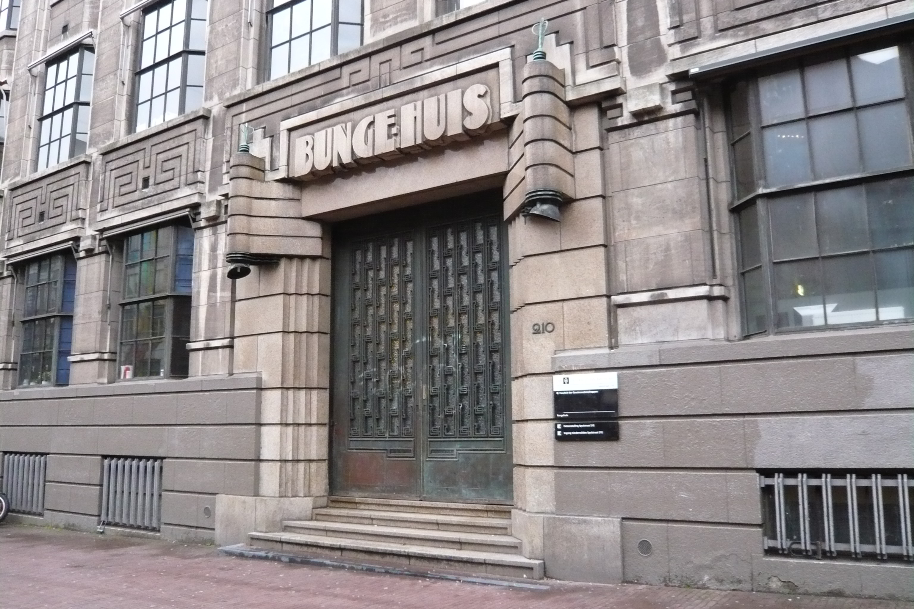 Doorway, Bungehuis, Spui 210, Amsterdam